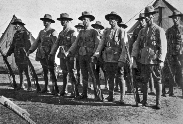 Australian War Memorial image P00989.047. Members of the Australian 56th Battalion standing at ease at a training camp.